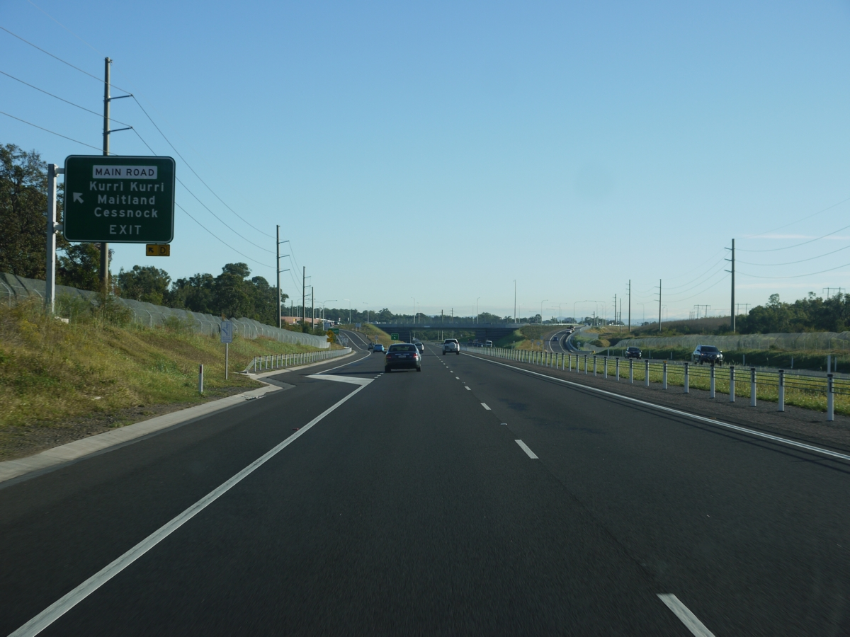 Approaching Main Road interchange from the east, at Kurri Kurri on the Hunter Expressway